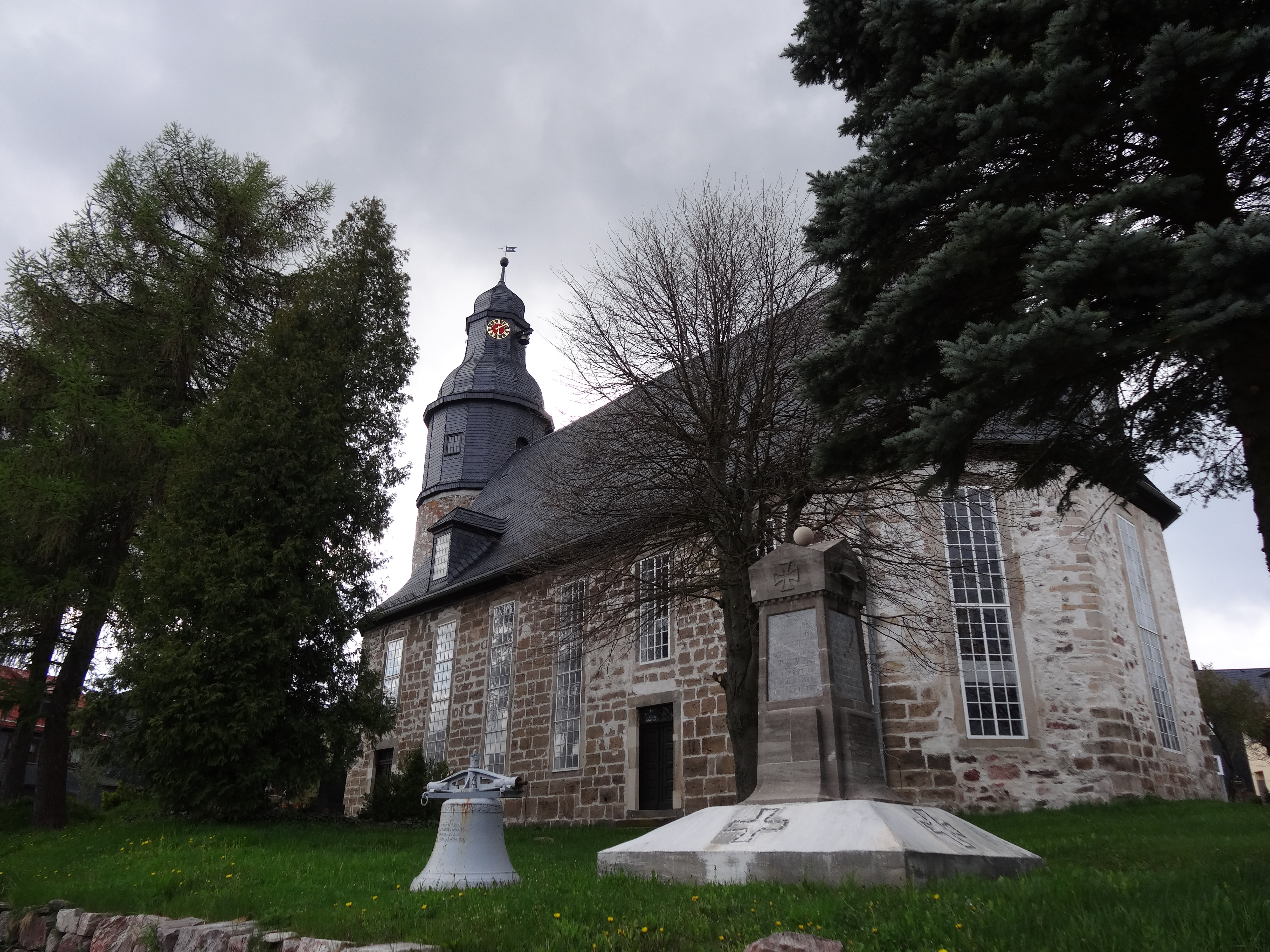 Church in Herschdorf, Ilm-Kreis, Thuringia, Germany